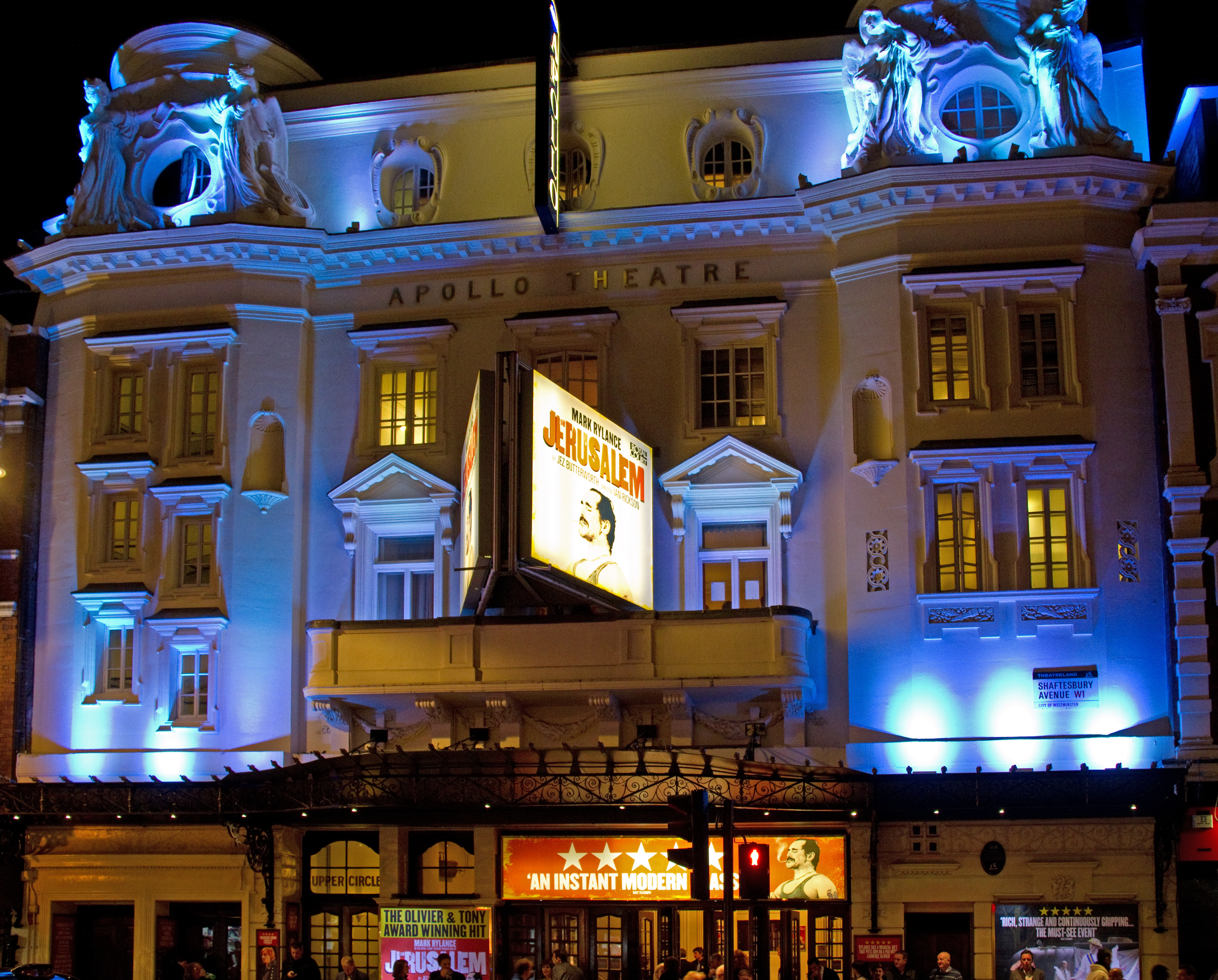 Jerusalem at the Apollo Theatre